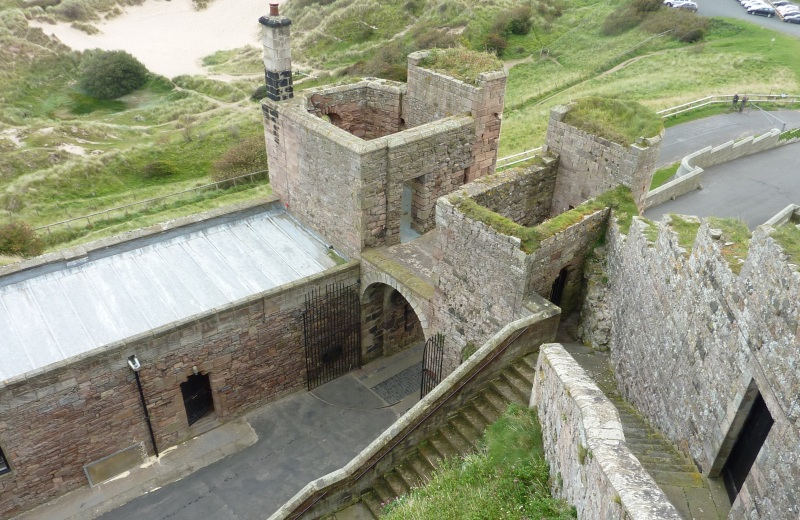 Bamburgh Castle, Northumberland, England. Gate building.